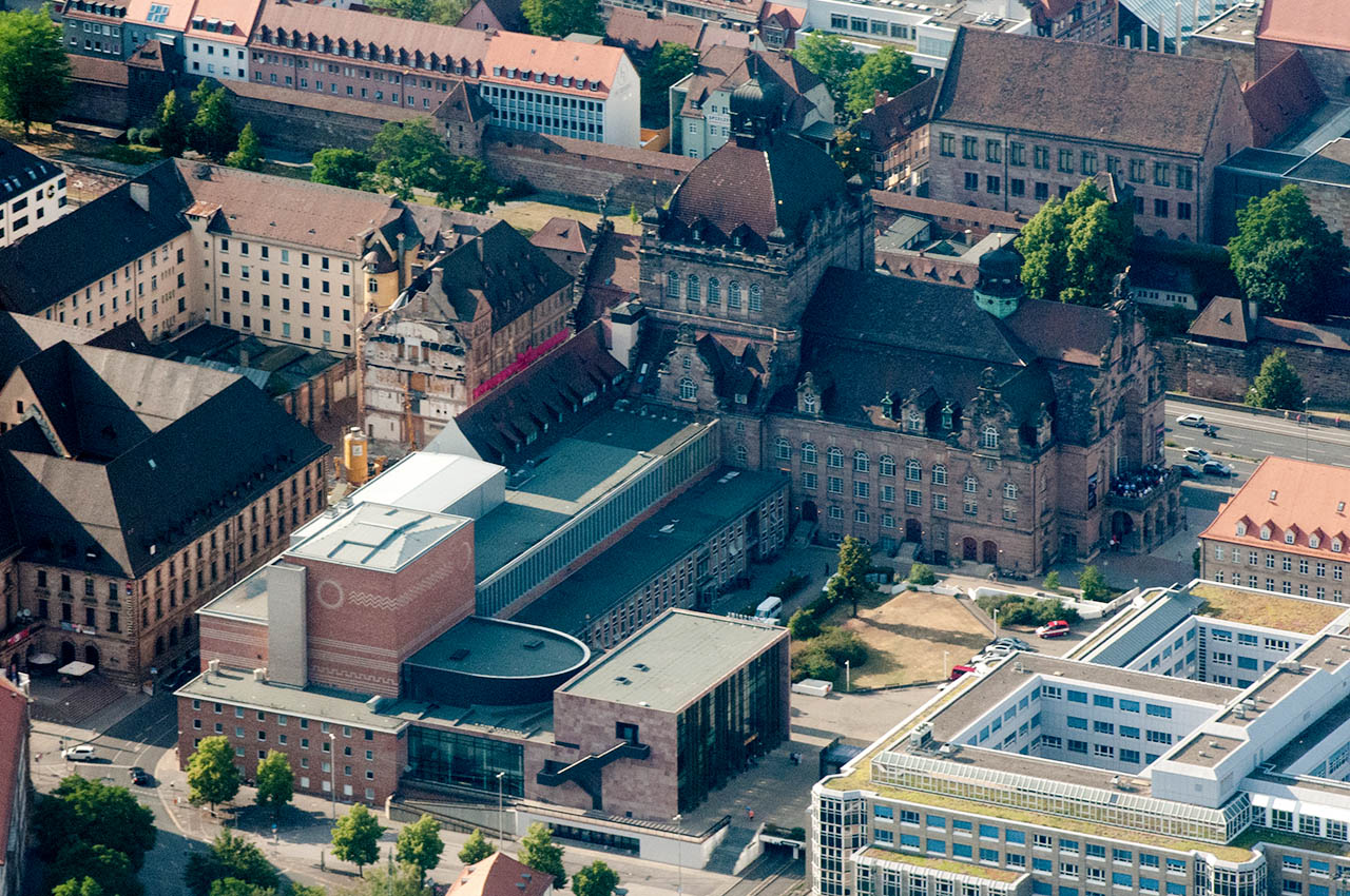 Aerial photography of the Schauspielhaus and Opernhaus (Theater and Opera) in Nuremberg, Germany